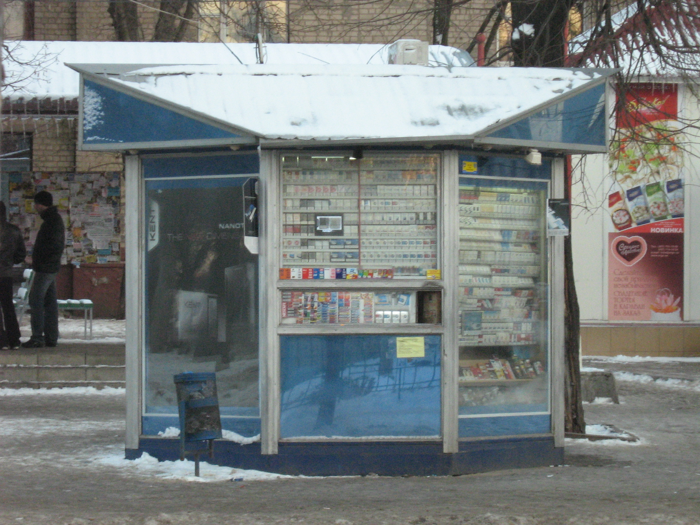 Tobacco kiosk in Kharkov, Ukraine. One of the sites on the network cigarette trade